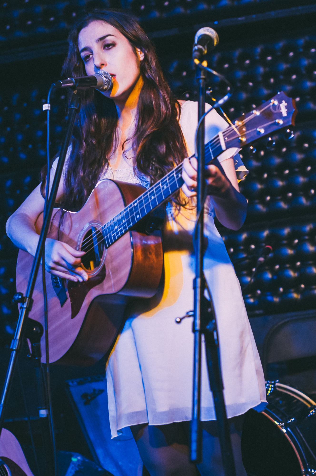 Marissa Nadler performing at Casbah in San Diego, California on June 12, 2011